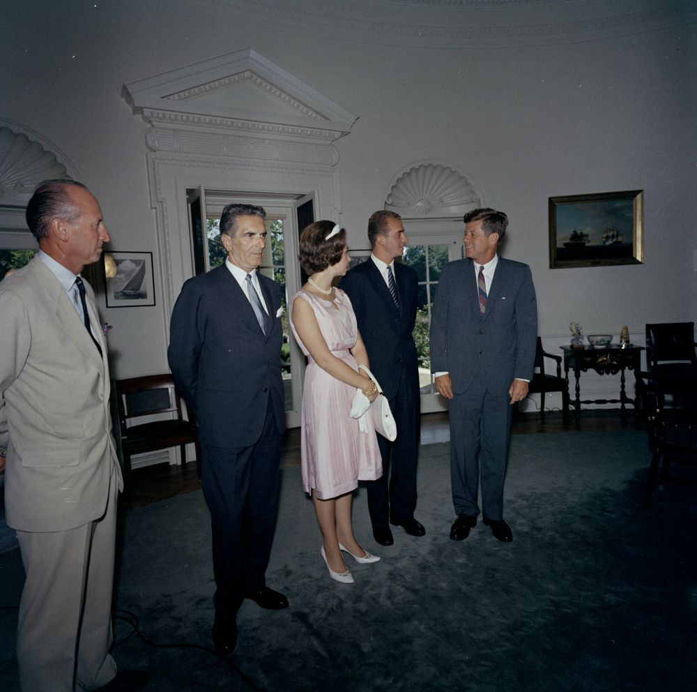 President John F. Kennedy meets with Prince Juan Carlos of Spain and his wife, Princess Sophia of Greece. Left to right: U.S. Chief of Protocol, Angier Biddle Duke; Ambassador of Spain, Antonio Garrigues y Díaz-Cañabate; Princess Sophia; Prince Juan Carlos; President Kennedy. Oval Office, White House, Washington, D.C.